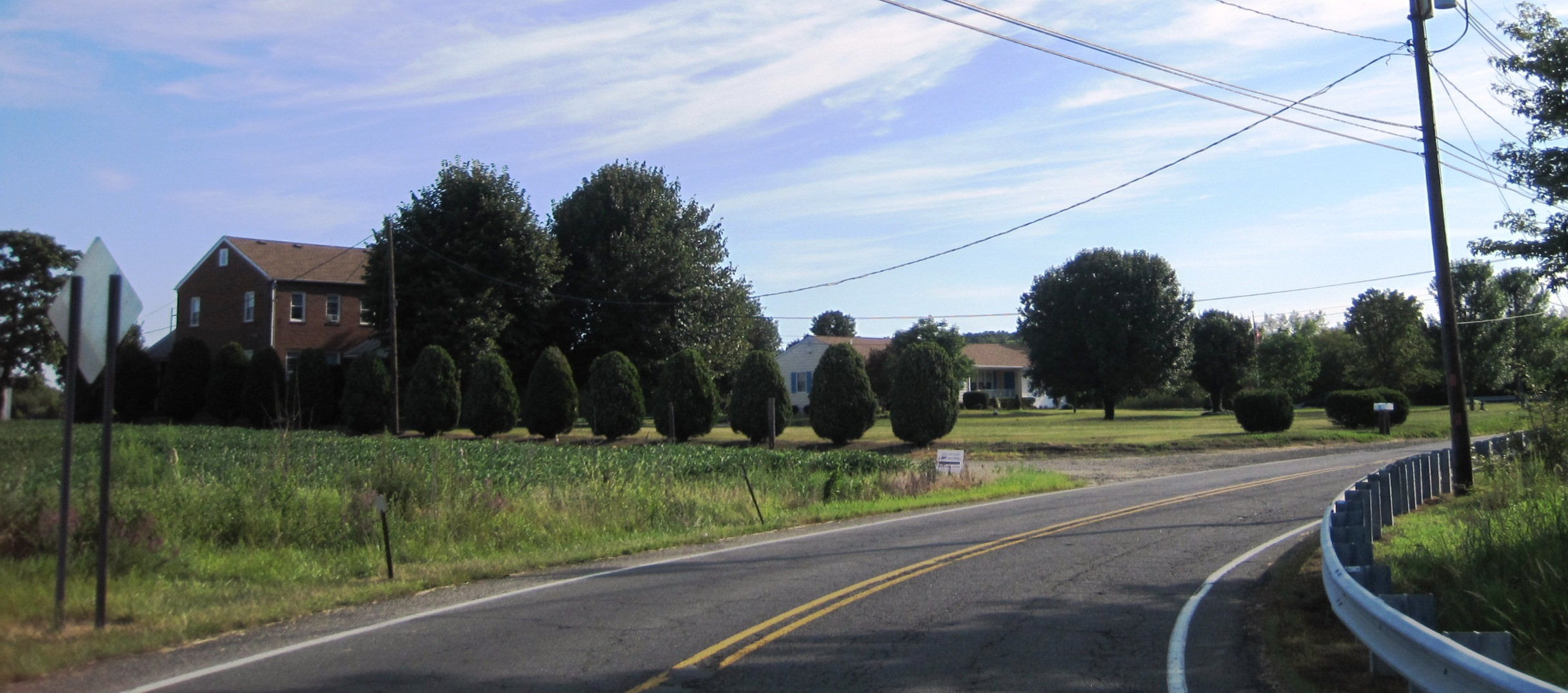 Photo of Wyckoffs Mills, New Jersey, an unincorporated community within Cranbury and Monroe townships in Middlesex County. Photo taken along Wyckoffs Mills Road approaching Wyckoff Mills Road [sic].